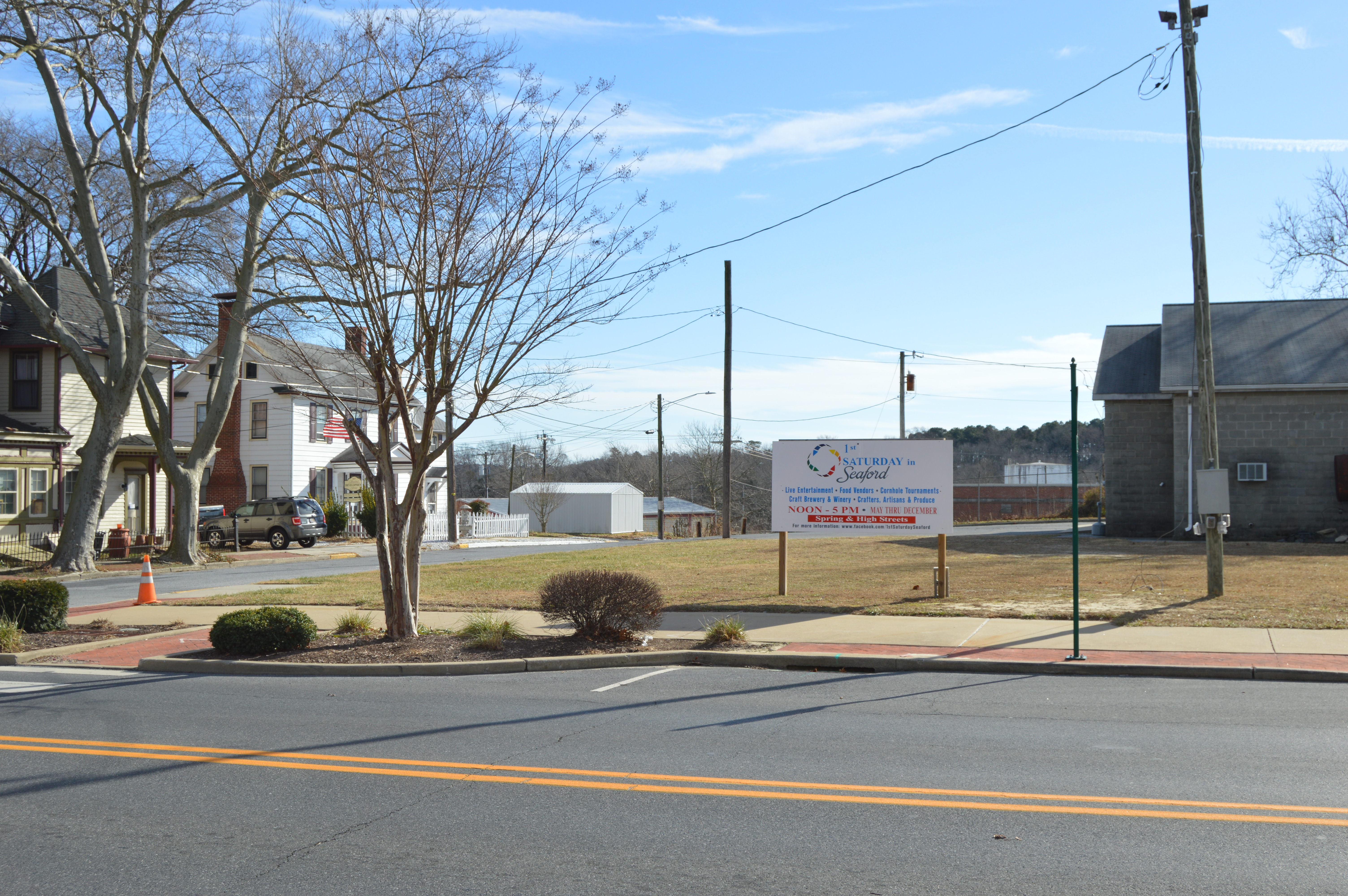 Overview of the lot on the southwestern corner of the intersection of High and Spring Streets in Seaford, Delaware, United States. This was formerly the site of the Burton Hardware Store; listed on the National Register of Historic Places in 1978, it has not yet been removed despite its destruction in a 2012 fire.